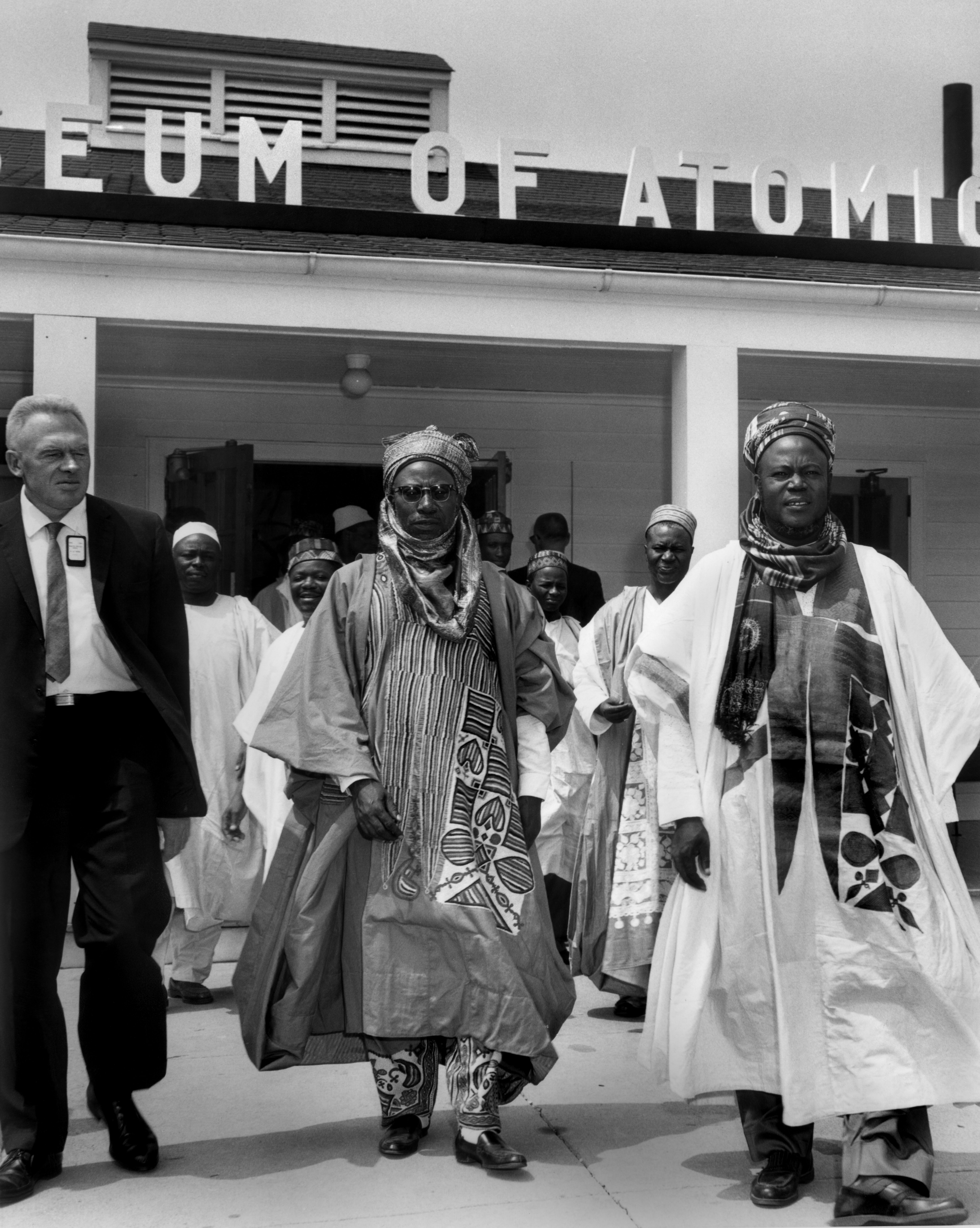 60-0719 DOE photo Ed Westcott Premier of Nigeria Sir Ahmadu Bello far right leaving the Atomic Museum Oak Ridge Tennessee 7-22-1960